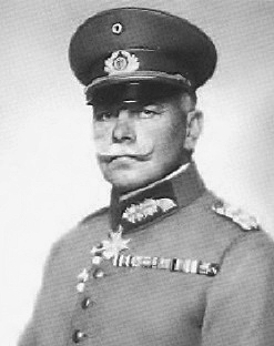 Cropped photo of General Wilhelm Heye